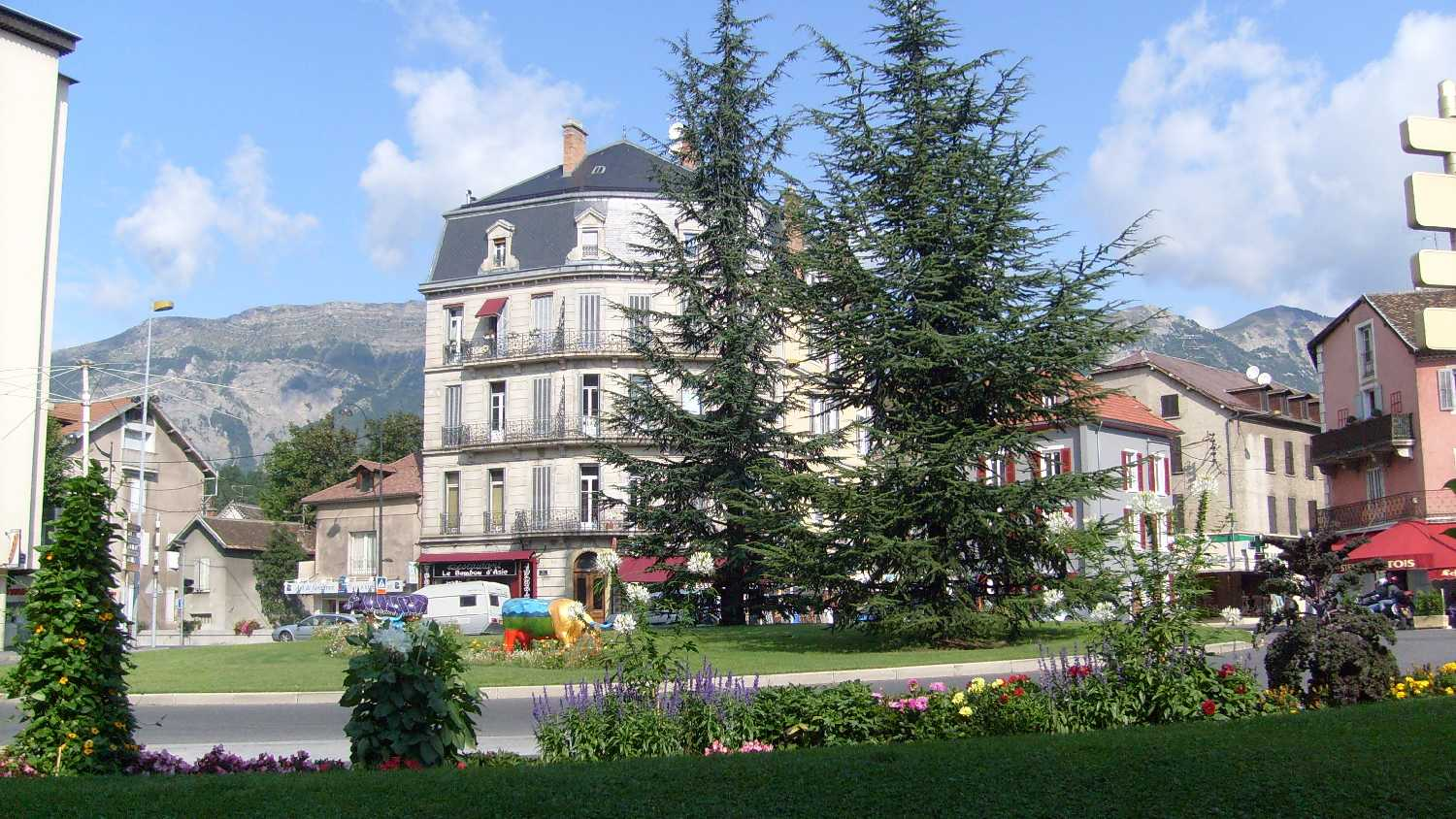 Roundabout/Traffic circle of the Cedar, Gap, Hautes-Alpes, France